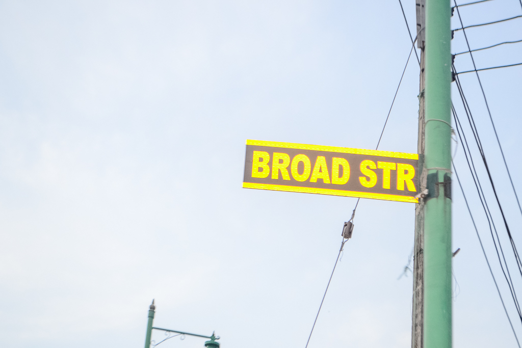 Descriptive sign-post indicating the popular broad street of Lagos, Nigeria